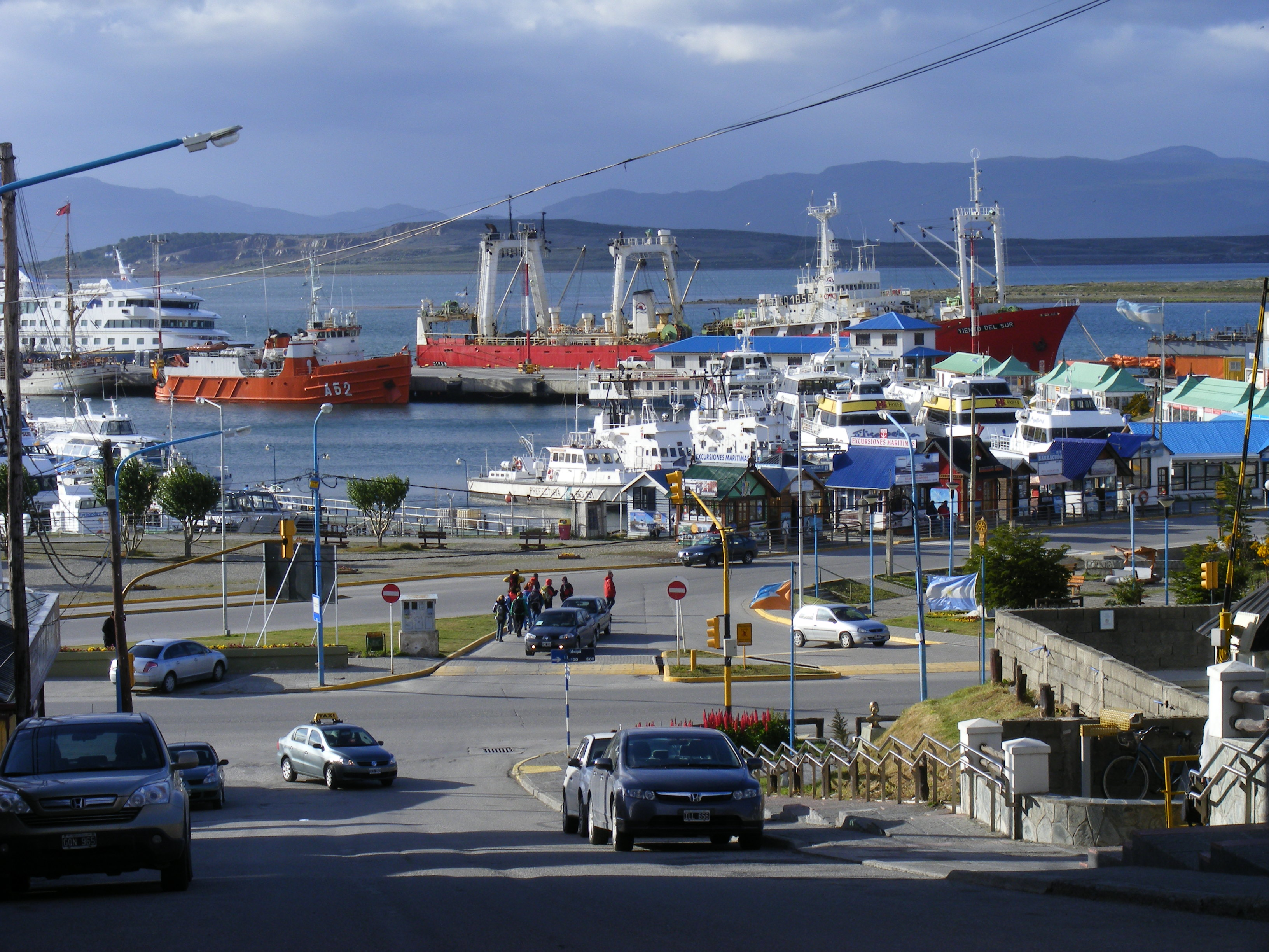 Ushuaia, Tierra del Fuego Province (Argentina).